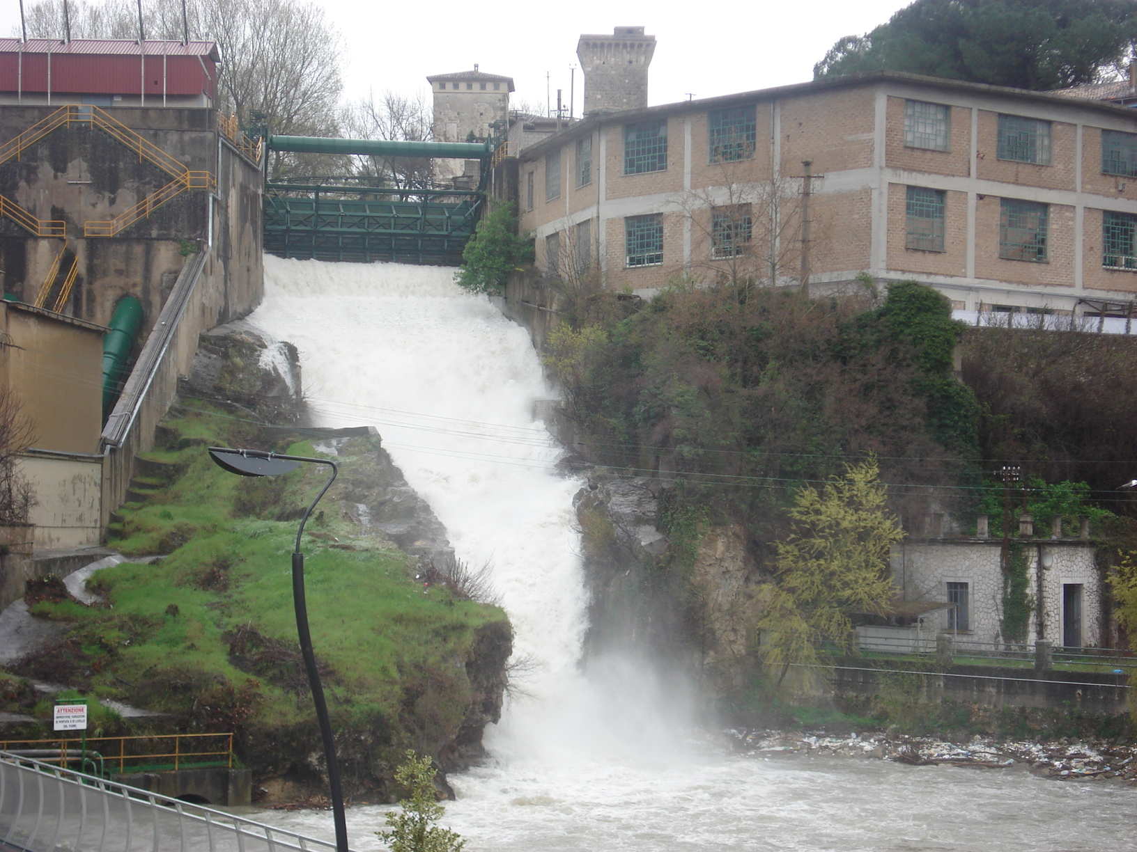 Cascata del Valcatoio, one of the two waterfalls present in Isola del Liri, Italy.